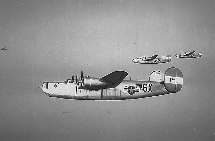 854th Bomb Squadron B-24s in formation. Ford B-24H-25-FO Liberator 42-95255 in forground